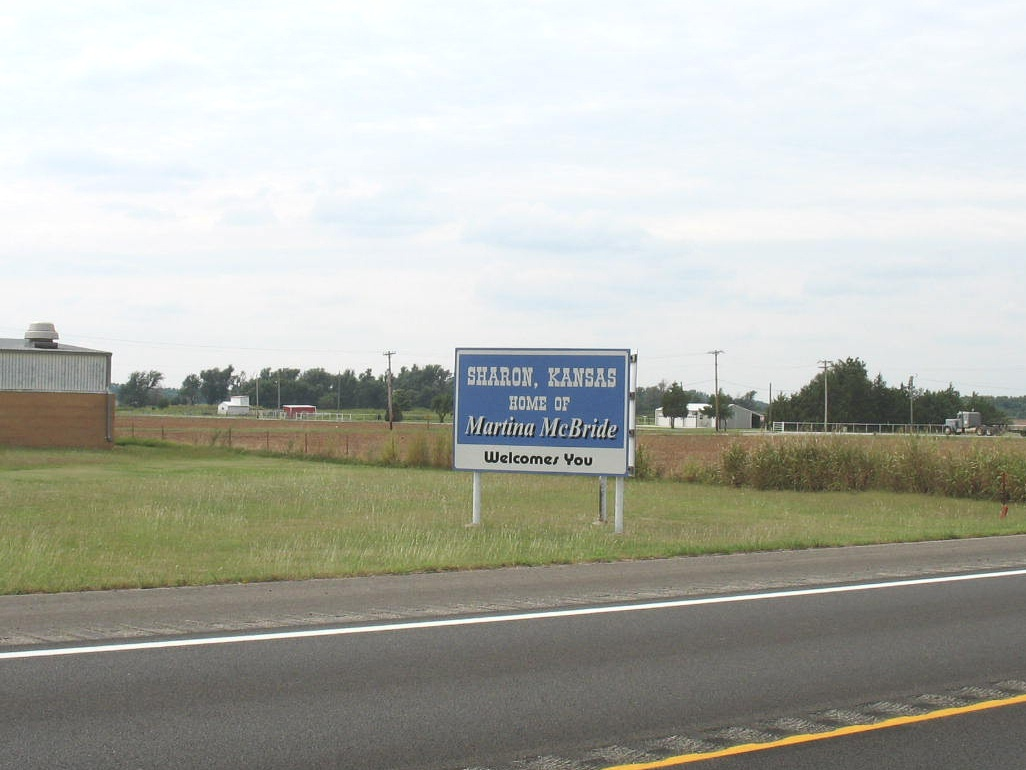 Martina McBride sign in Sharon, Kansas